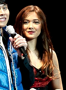 Maja Salvador attending the Star Magic Tour on April 16, 2011.